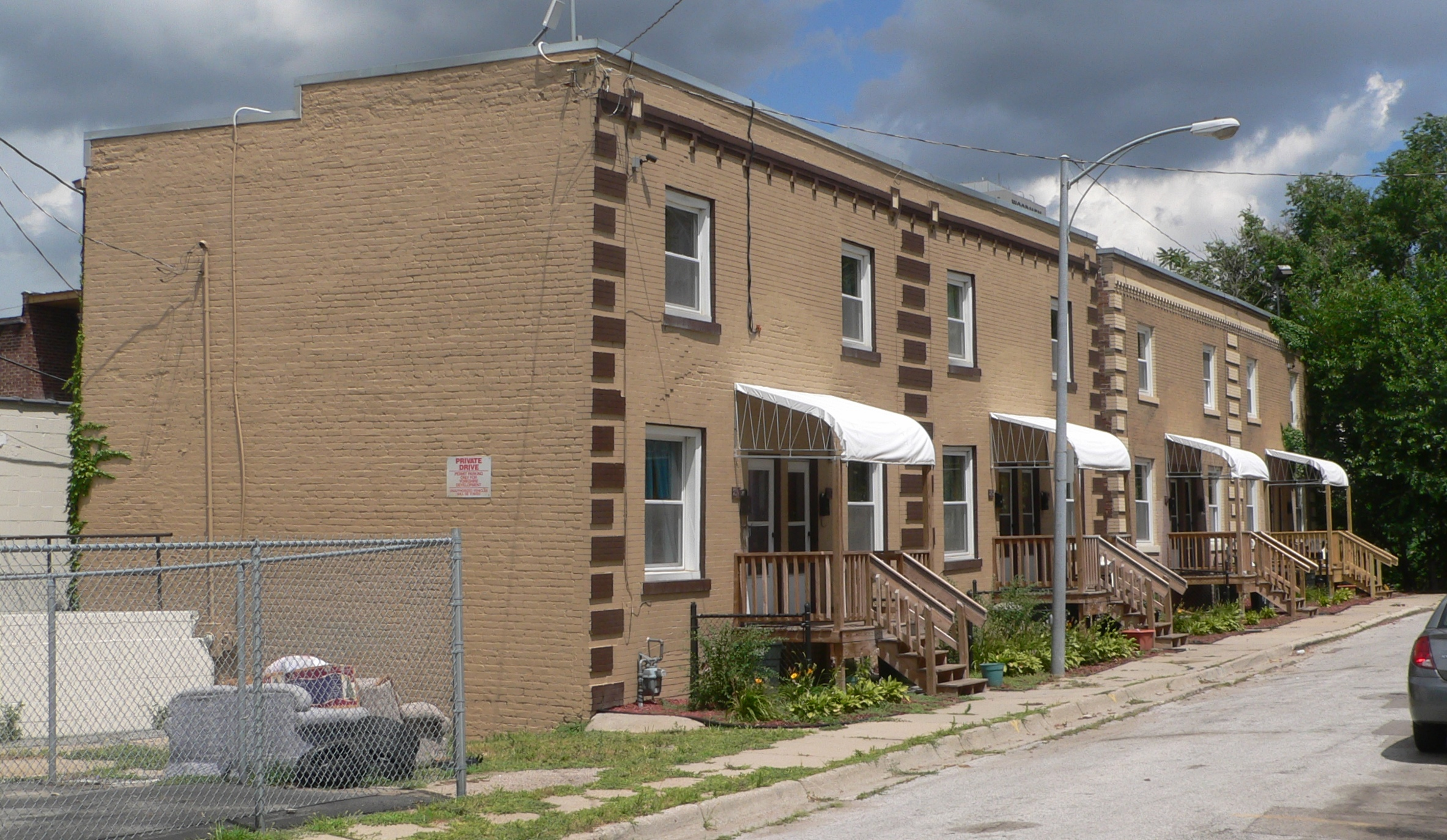 Rowhouses at 2302-2316 Dewey Avenue in Omaha, Nebraska; seen from the southwest. The eastern building (farthest from the camera) includes 2302-2308 Dewey; the western building (closer to the camer) includes 2310-2316 Dewey. Address numbers increase from east to west.